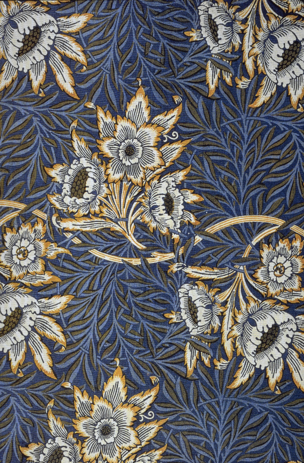 Tulip and Willow printed linen designed by William Morris. (Identification from Linda Parry: William Morris Textiles, New York, Viking Press, 1983, ISBN 0-670-77074-4, p. 147)